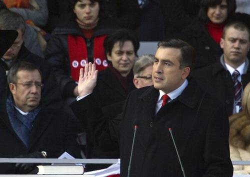 oath of Saakhashvili